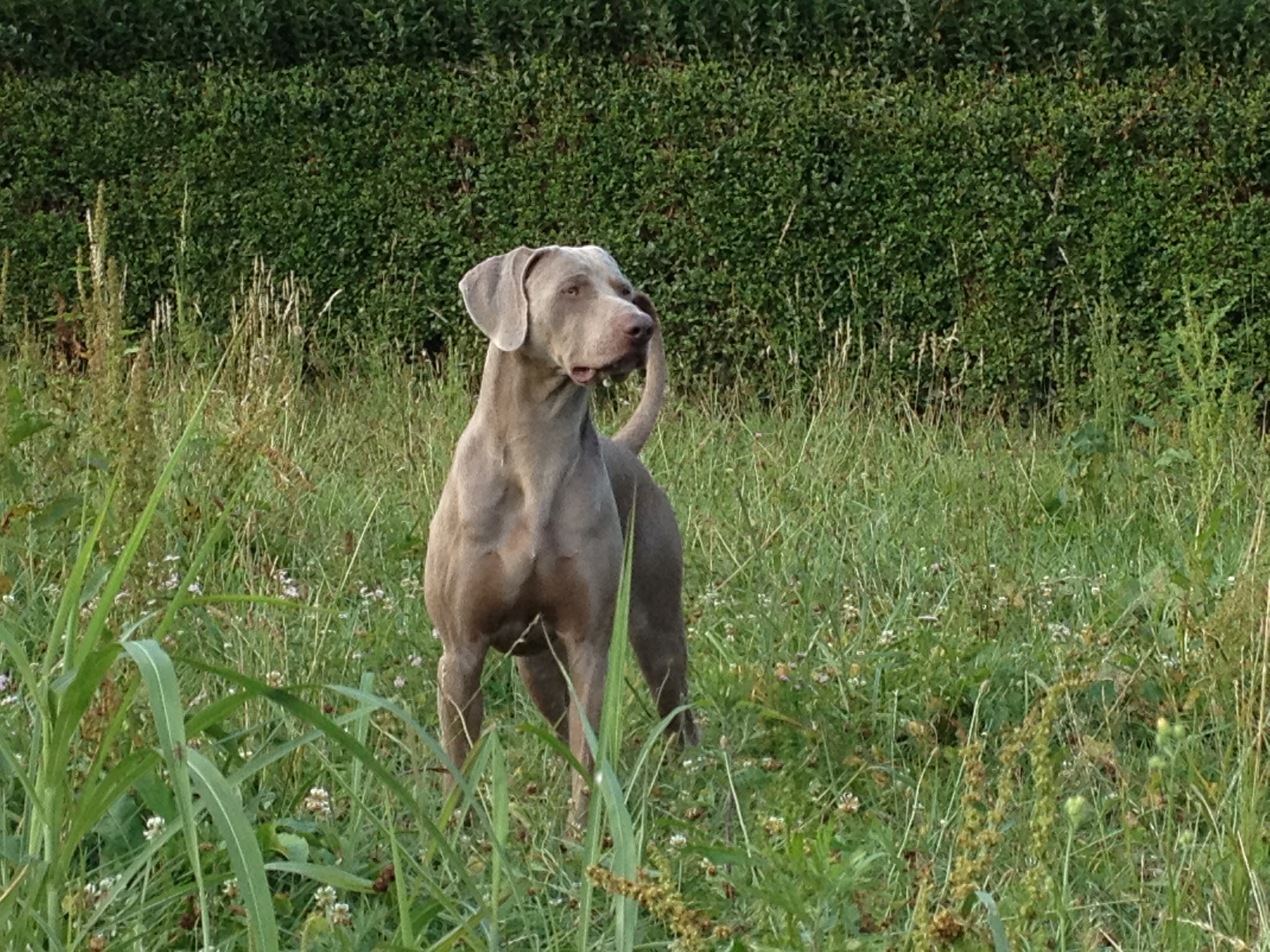 Young male of Weimaraner